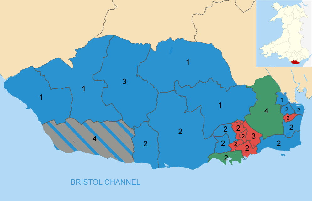 Results of the Vale of Glamorgan Council election, May 2008, indicating numbers of councillors per ward and their party affiliations. Colours: Conservative Labour Plaid Cymru Llantwit First Striped ward has mixed representation.